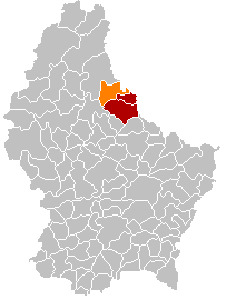 Own edit of Kanton ViandenLocatie.png